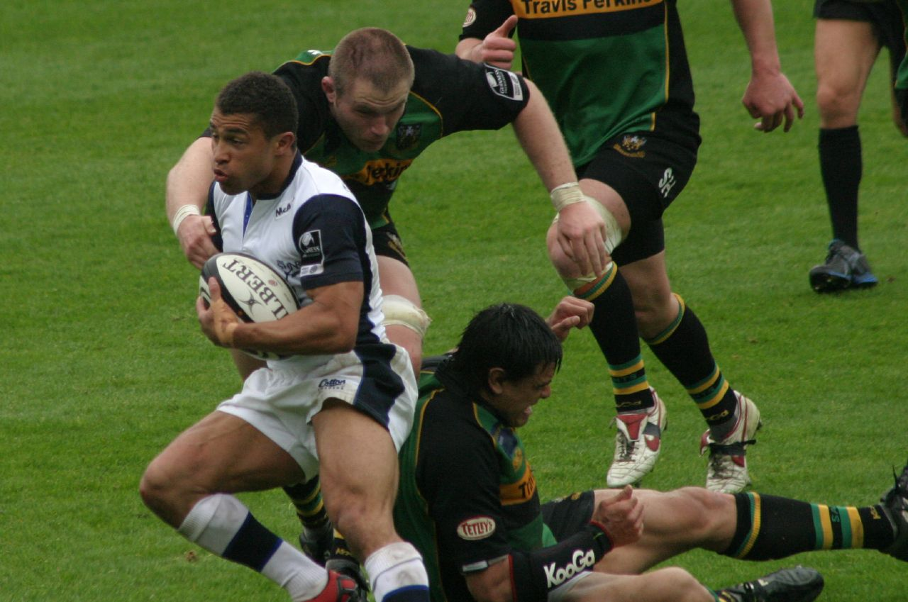 Jason Robinson during a match of the Guinness Premiership between the Northampton Saints and the Sale Sharks. The match took place in Franklin's Garden on the 6th of may 2006. Sale won 36-34.